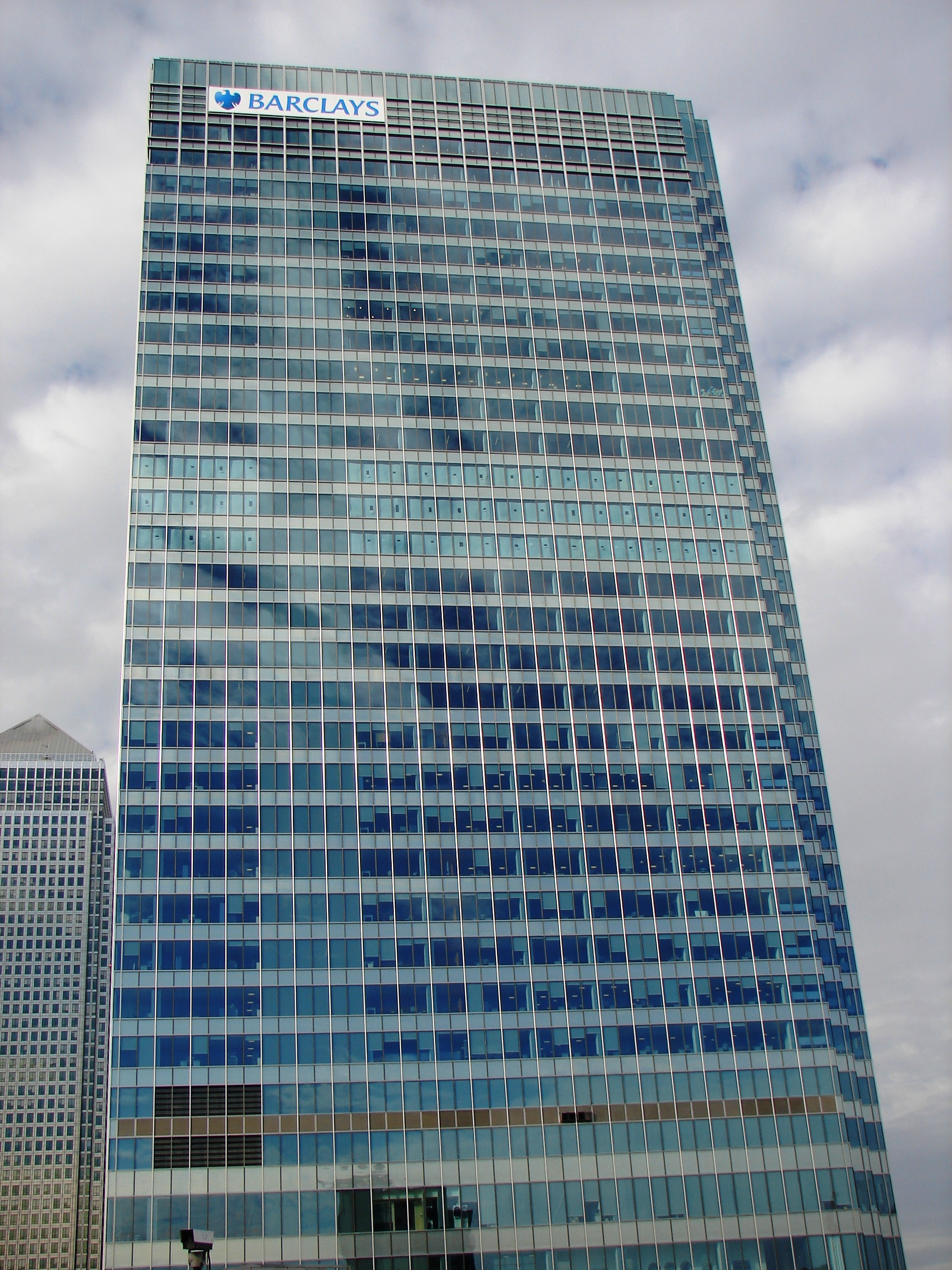 Barclays Bank PLC world headquarters in Canary Wharf, London